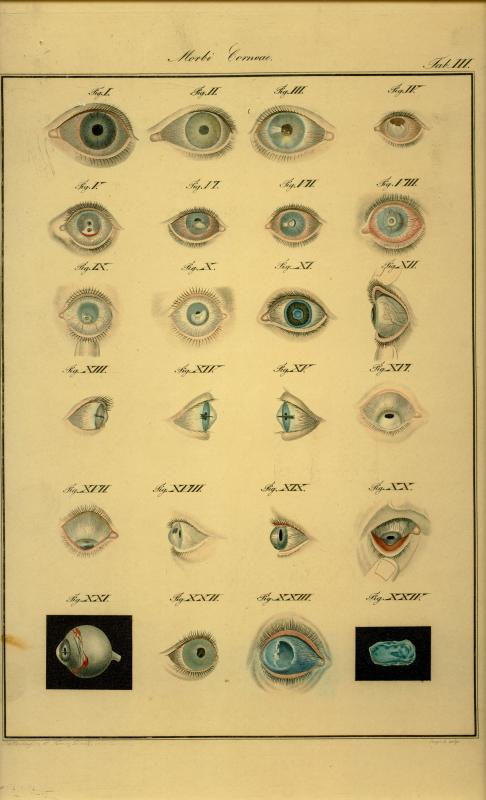 "Morbi corneae." From the James Moores Ball Ophthalmology collection. The book is called "Klinische Darstellungen der Krankheiten des Menschlichen Auges" (Clinical representations of the diseases and malformations of the human eye), by Dr. Friedrich A. von Ammon, 1838